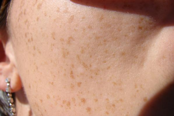 Freckles closeup.